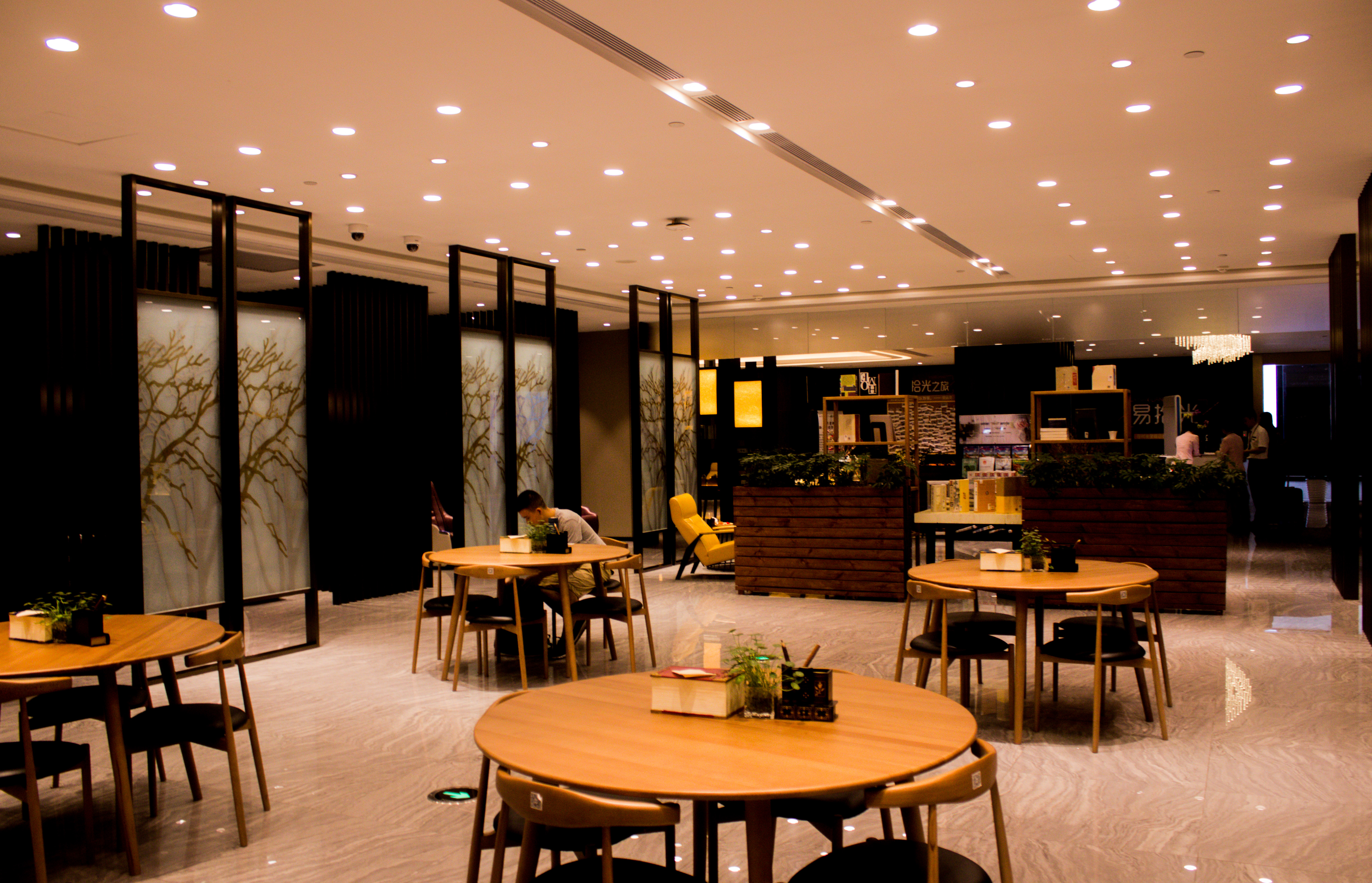 The lounge at Terminal 2 of Guangzhou Baiyun International Airport. This is in the main check-in area and before the security area.